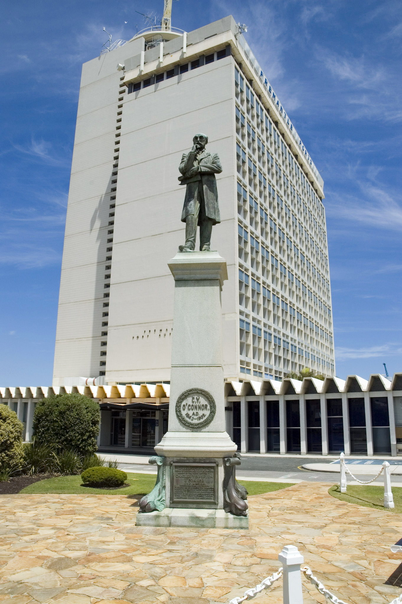 C. Y. O'Connor statue, Fremantle Port Authority building - Fremantle, Western Australia.